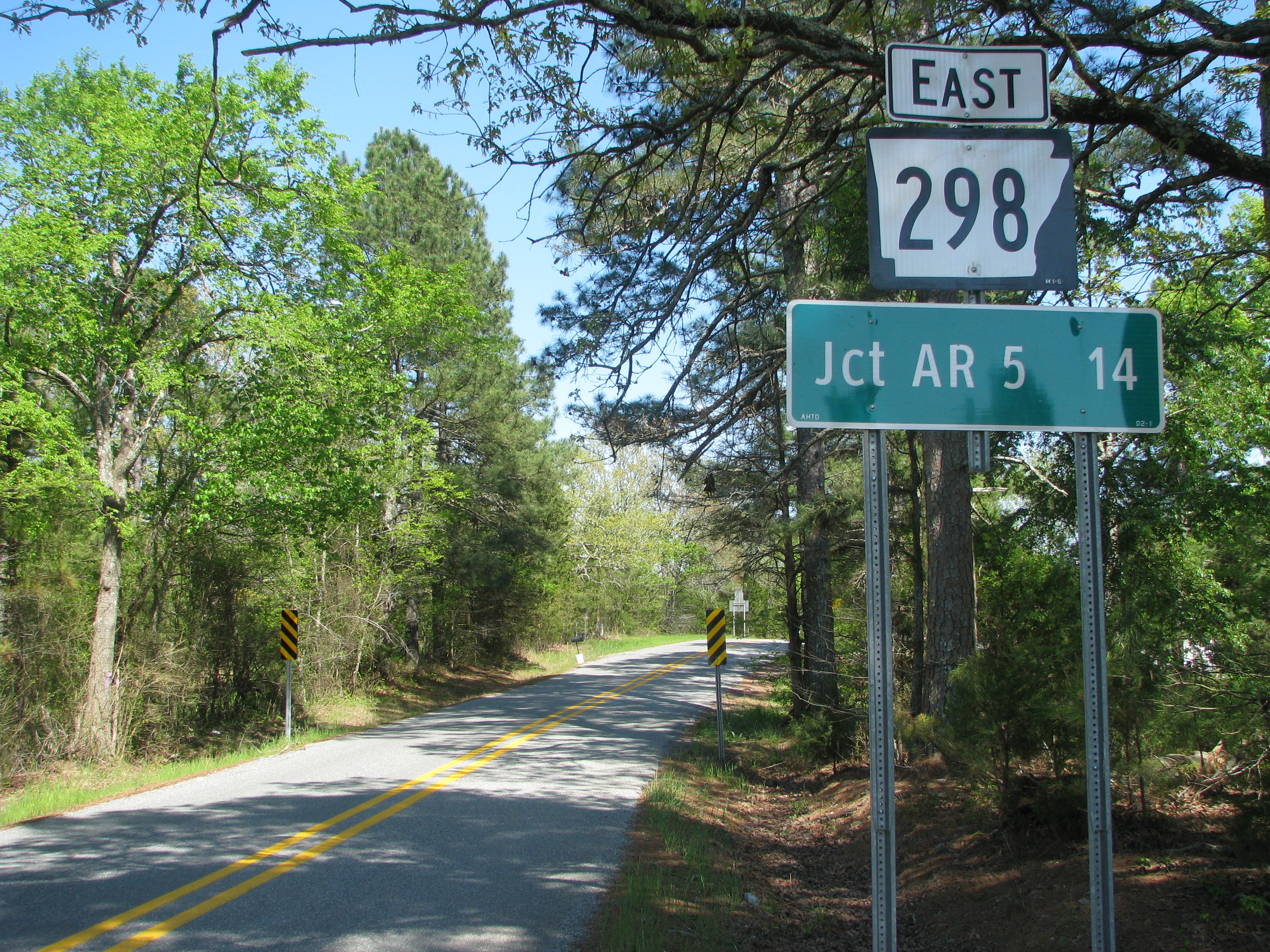 This photo was taken at the junction of AR-9 and AR-298 near Paron, Arkansas. I took this with my Canon PowerShot S5 IS on April 28th, 2018.